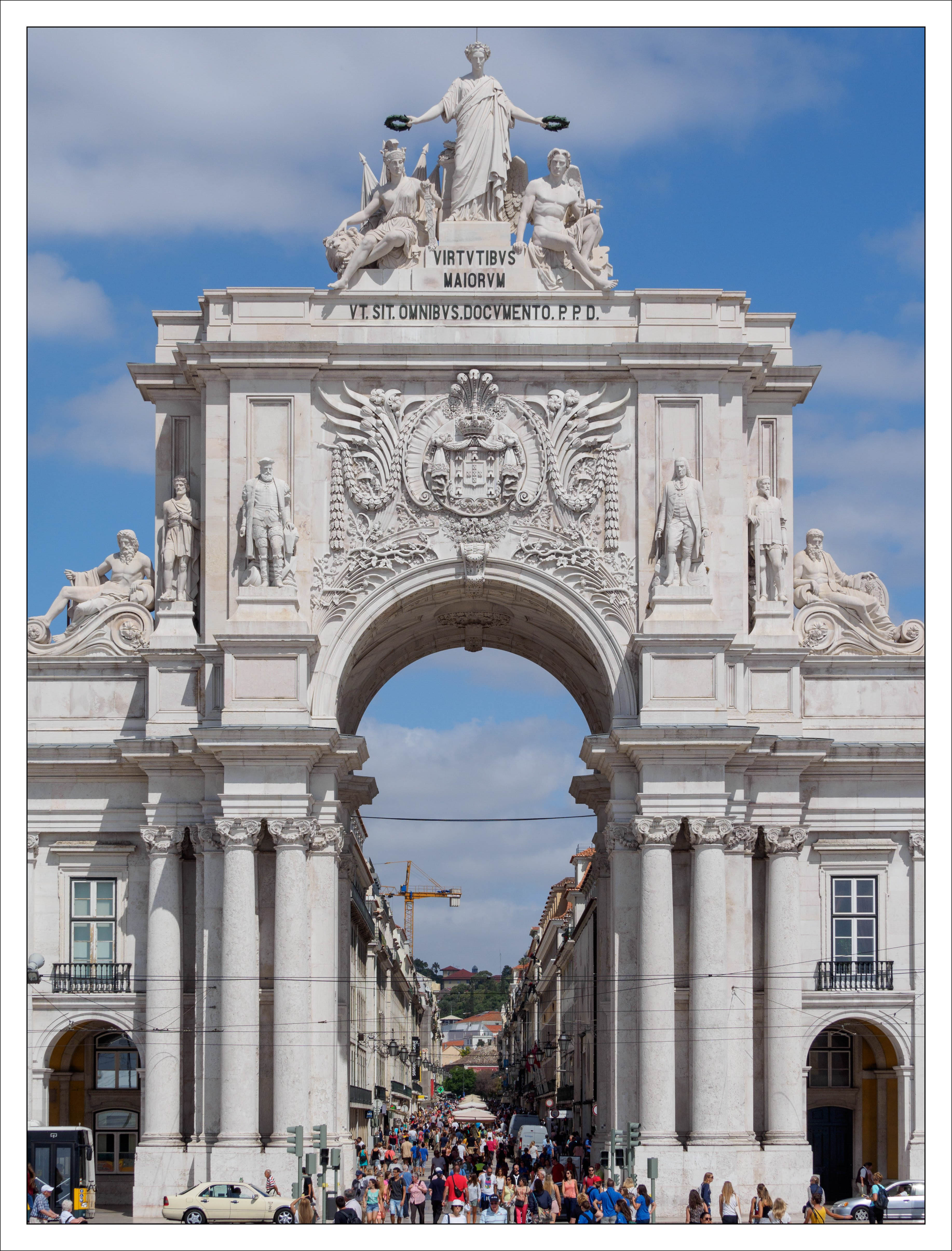 Andreas Manessinger, , Creative Commons BY-SA